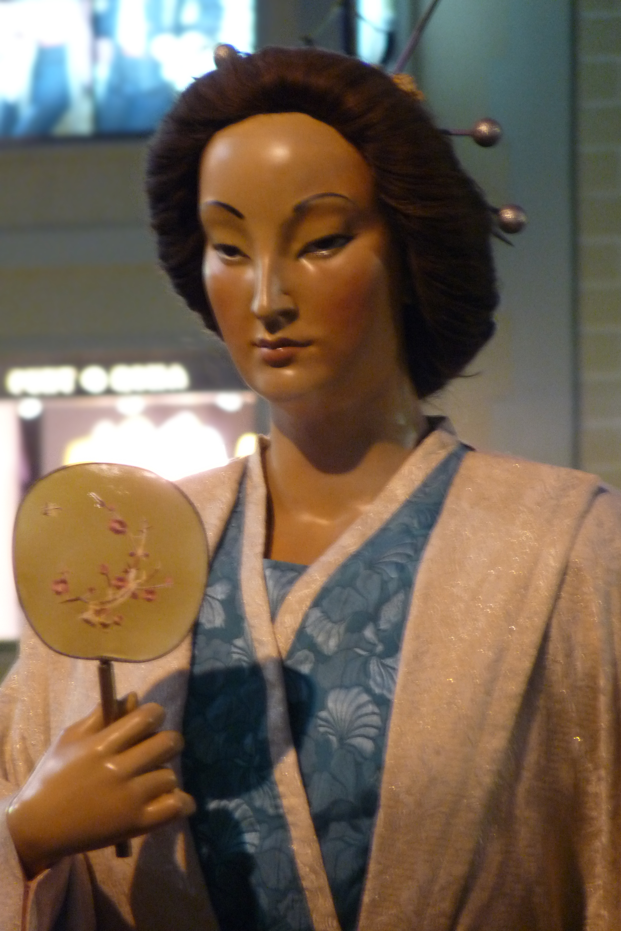 Japanese giantess, a Ramon Ferran's work, Reus.